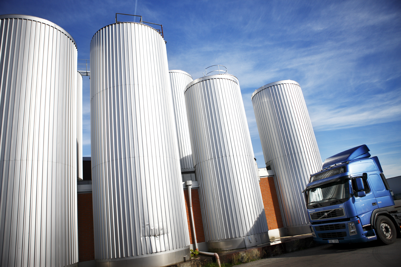 Skånemejerier dairy production site, Malmö